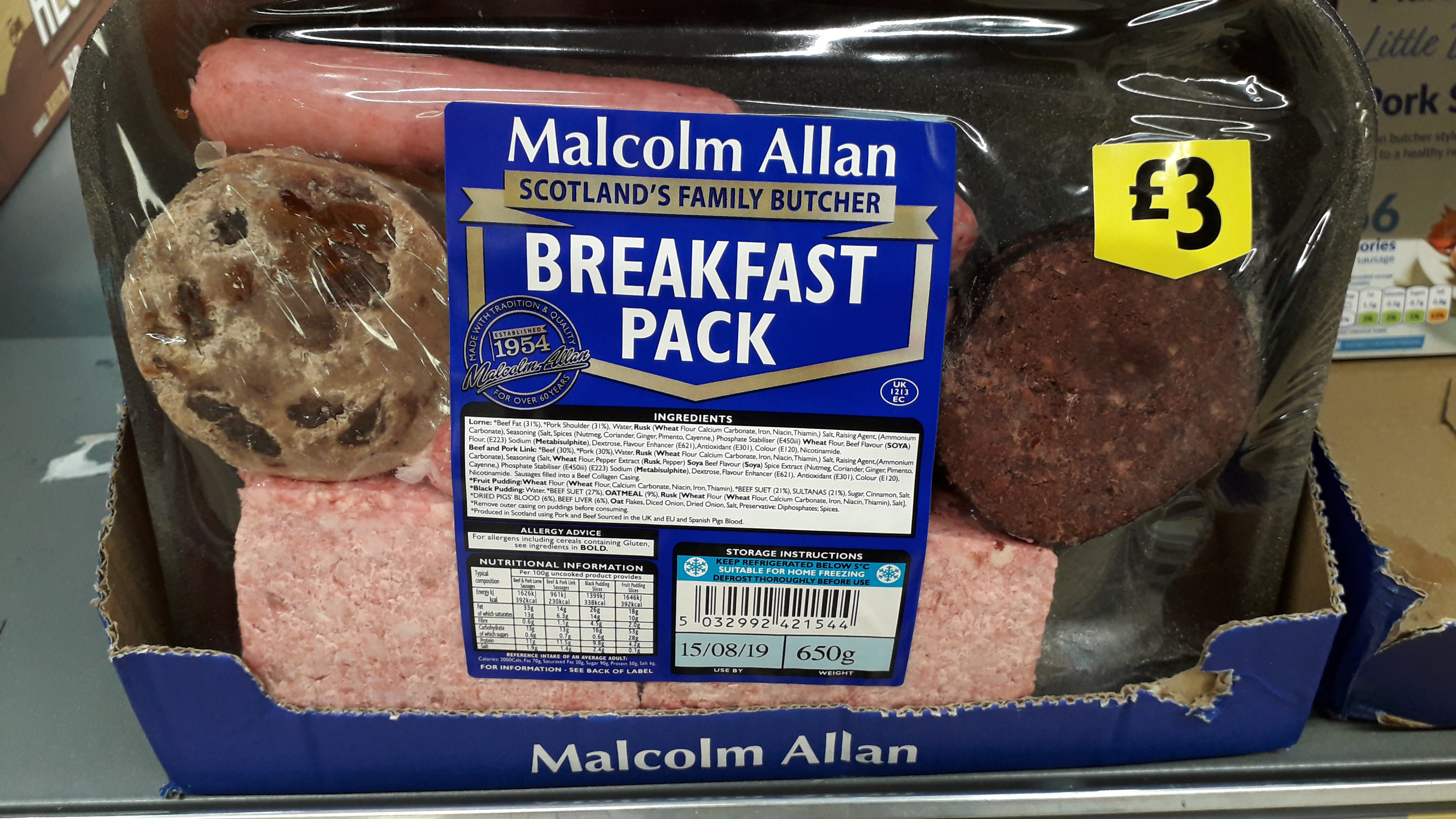 Scottish breakfast pack containing lorne sausage, pork and beef link sausages, fruit pudding, black pudding.